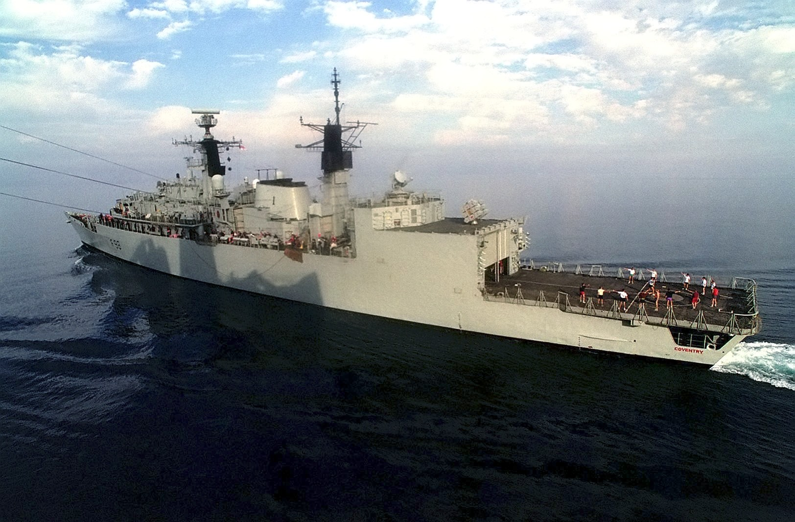 The British Royal Navy Ship Broadsword Class Frigate, HMS COVENTRY (F 98), conducts an underway replenishment while on station in the Persian Gulf in support of the Southwest Asia build-up.